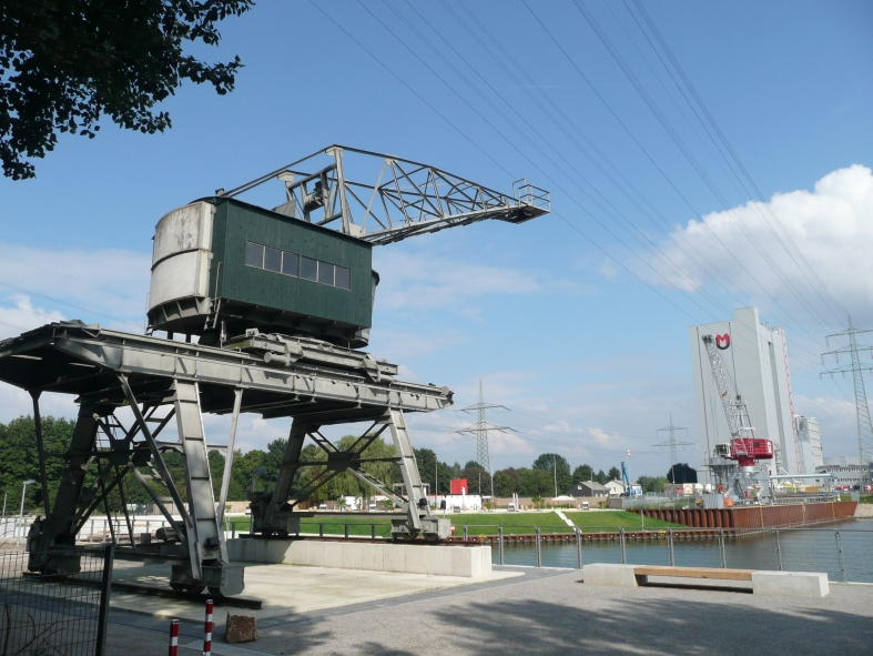 The picture shows the inner harbour of Recklinghausen.